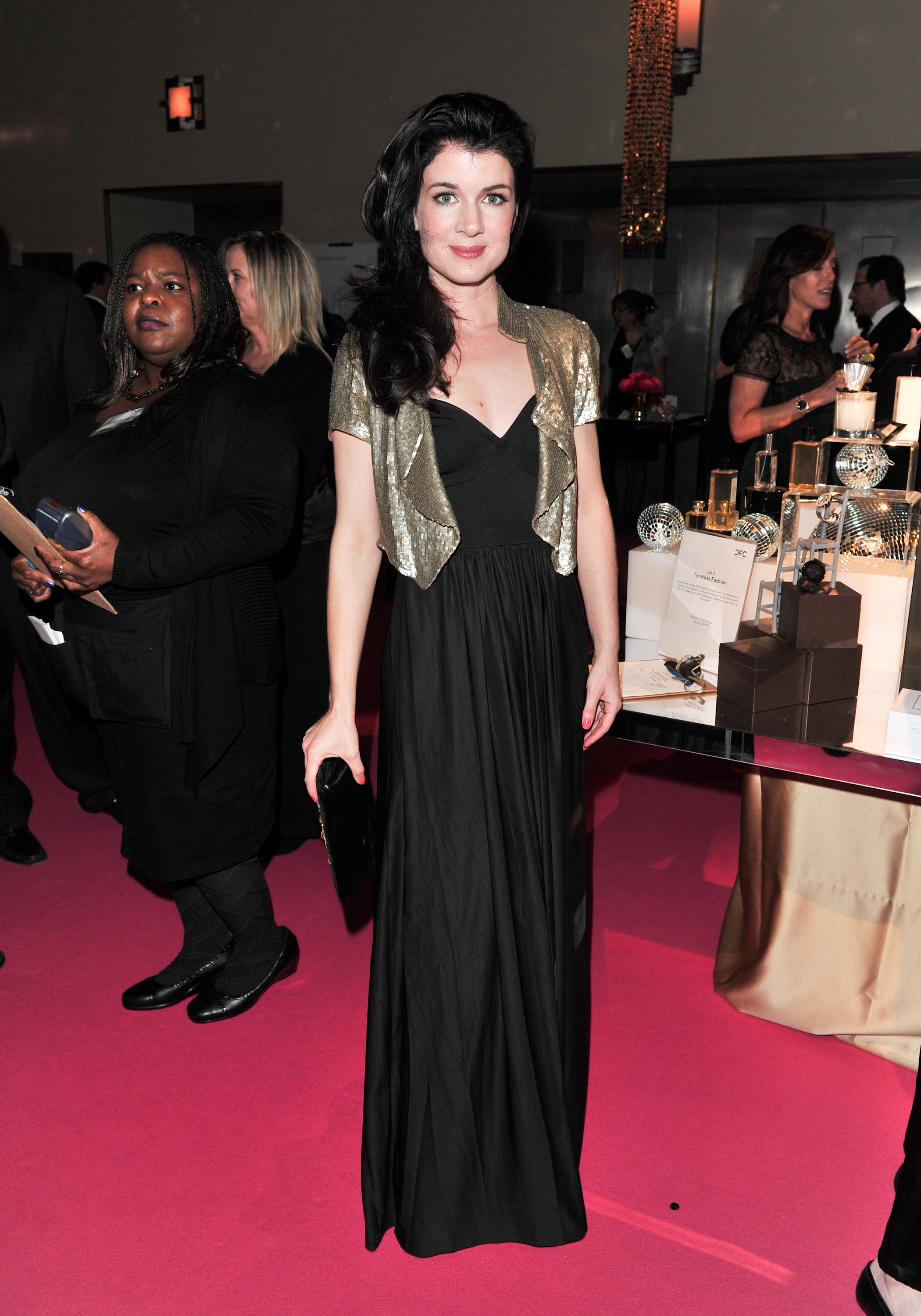 Actress Gabrielle Miller (Corner Gas) at the 18th CFC Annual Gala and Auction. To learn more about the CFC, please visit